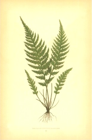 Fern painting